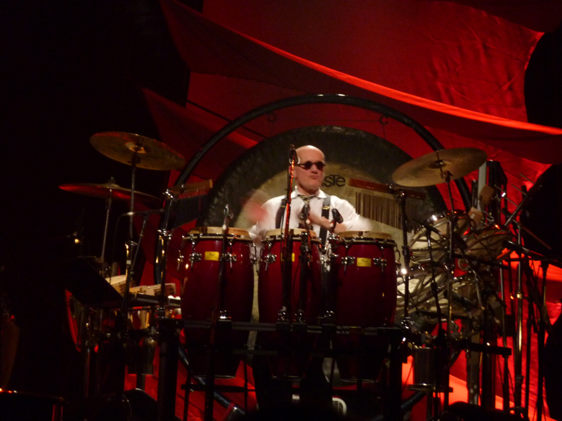 Elton John and Ray Cooper rockin' in Hawaii- on tour, January, 2010